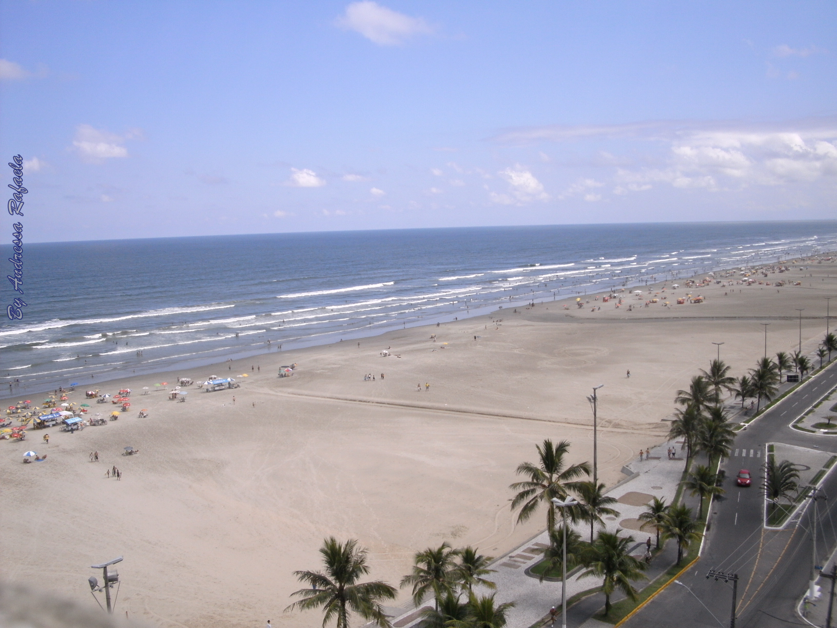 View of Praia Grande city, São Paulo, Brazil.